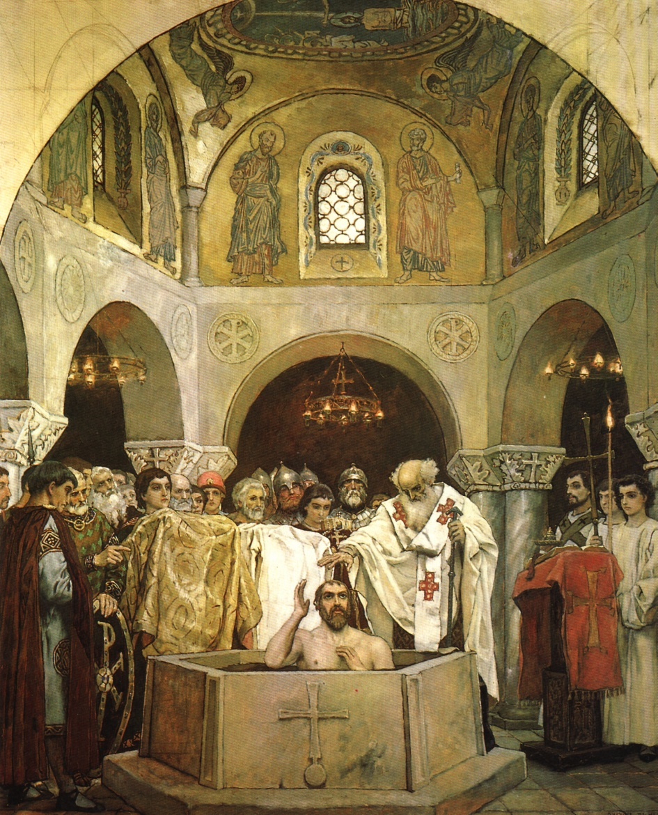 Sketch for Vladimir Cathedral fresco